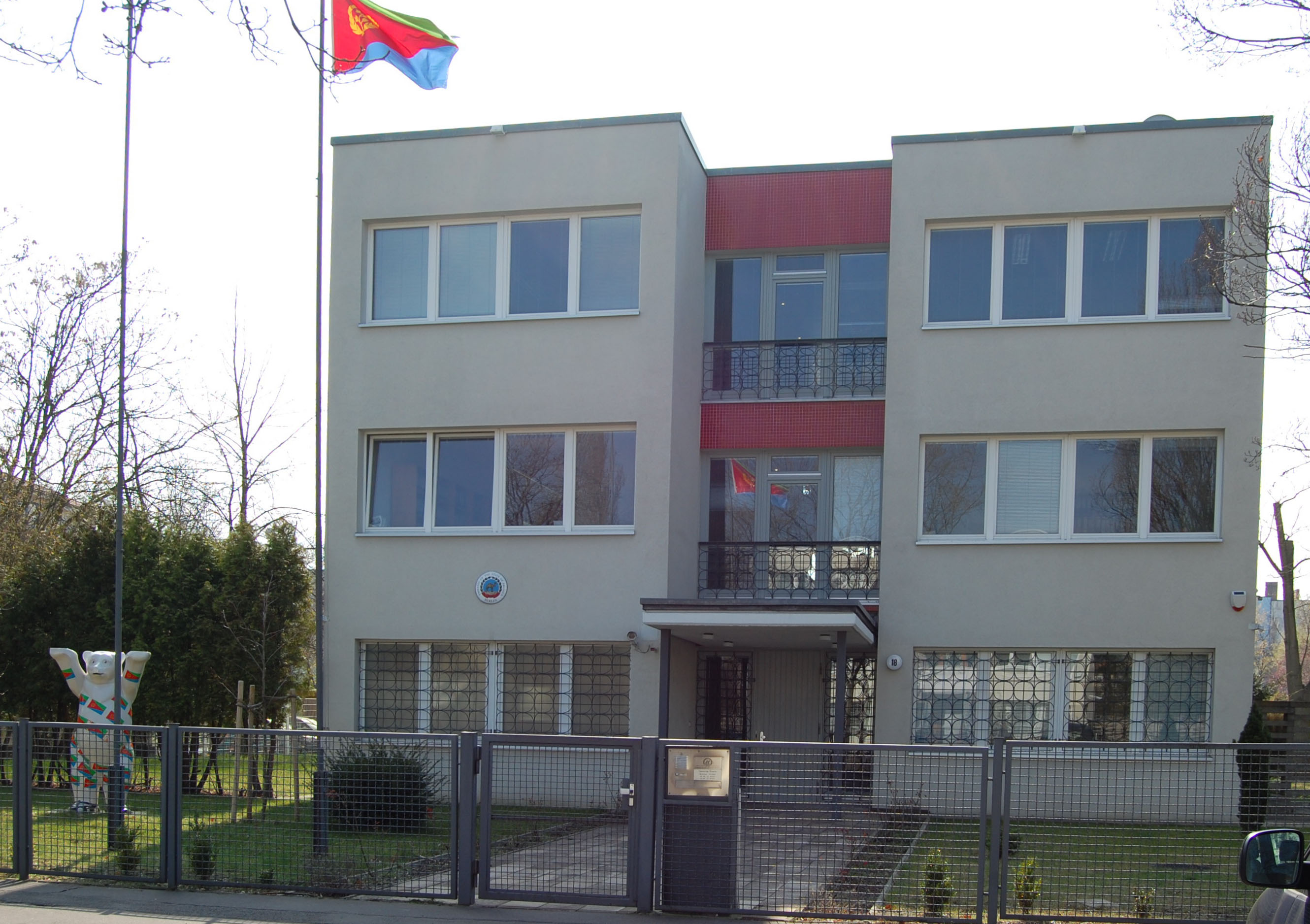 Embassy of Eritrea in Berlin